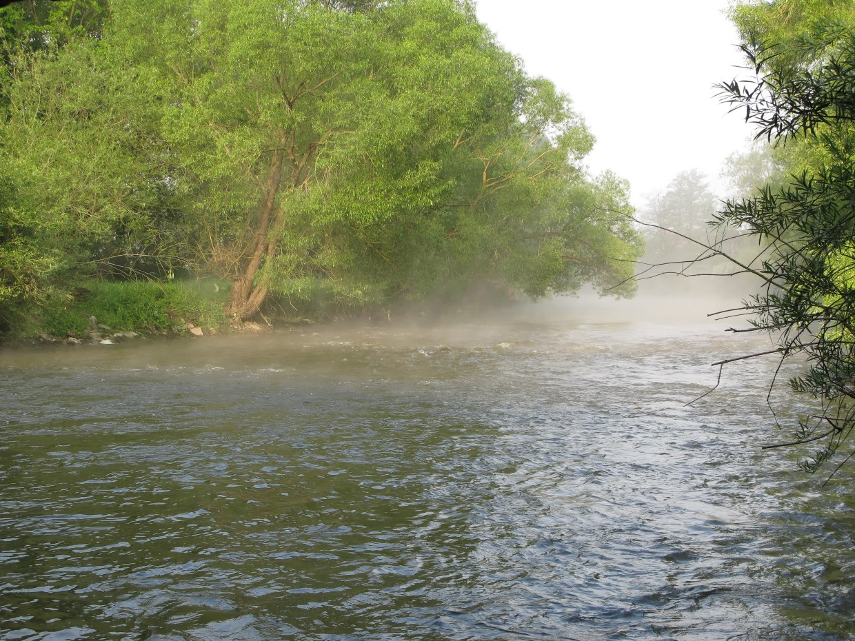 City of "Beilngries": river "Altmühl"